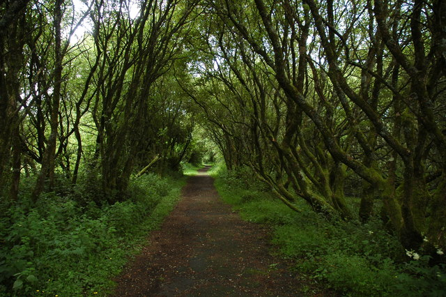 Footpath at the Gearagh The Gearagh gets its name from 'En Gaorthadh', the wooded river. It is a unique place of streams, river channels and small islands which was formed in a basin in the Lee valley at the end of the last Ice Age. Pictured here is a path through trees on the southern side of the lake.